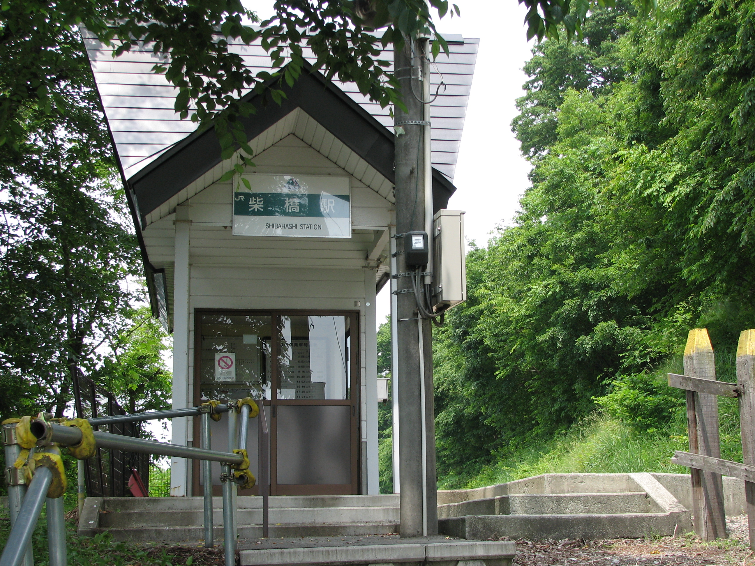 JR East Shibahashi station. 東日本旅客鉄道（JR東日本）の柴橋駅。